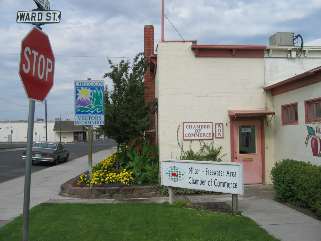 Chamber of commerce in Milton-Freewater, Oregon